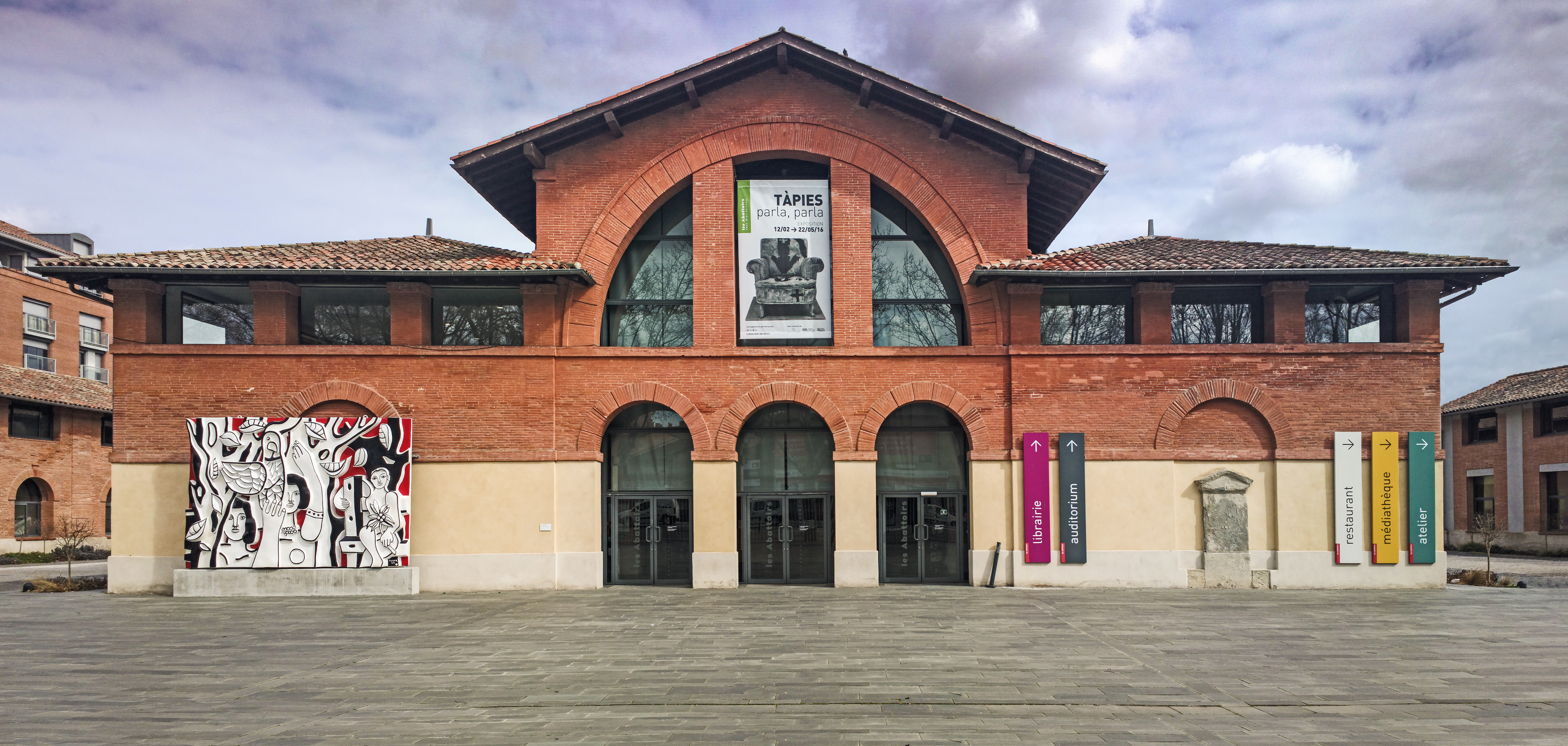 Les abattoirs - Toulouse Museum of Modern Art - Facade by Urbain Vitry.